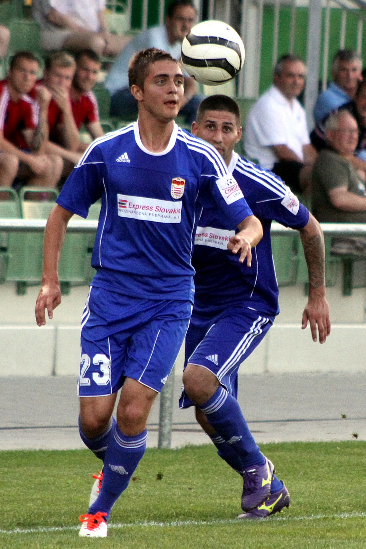 Friendly match SV Mattersburg vs FK Dukla Banská Bystrica (2:2) at 2013-06-21 in Mattersburg. – The photo shows Michal Faško (FK Dukla Banská Bystrica).